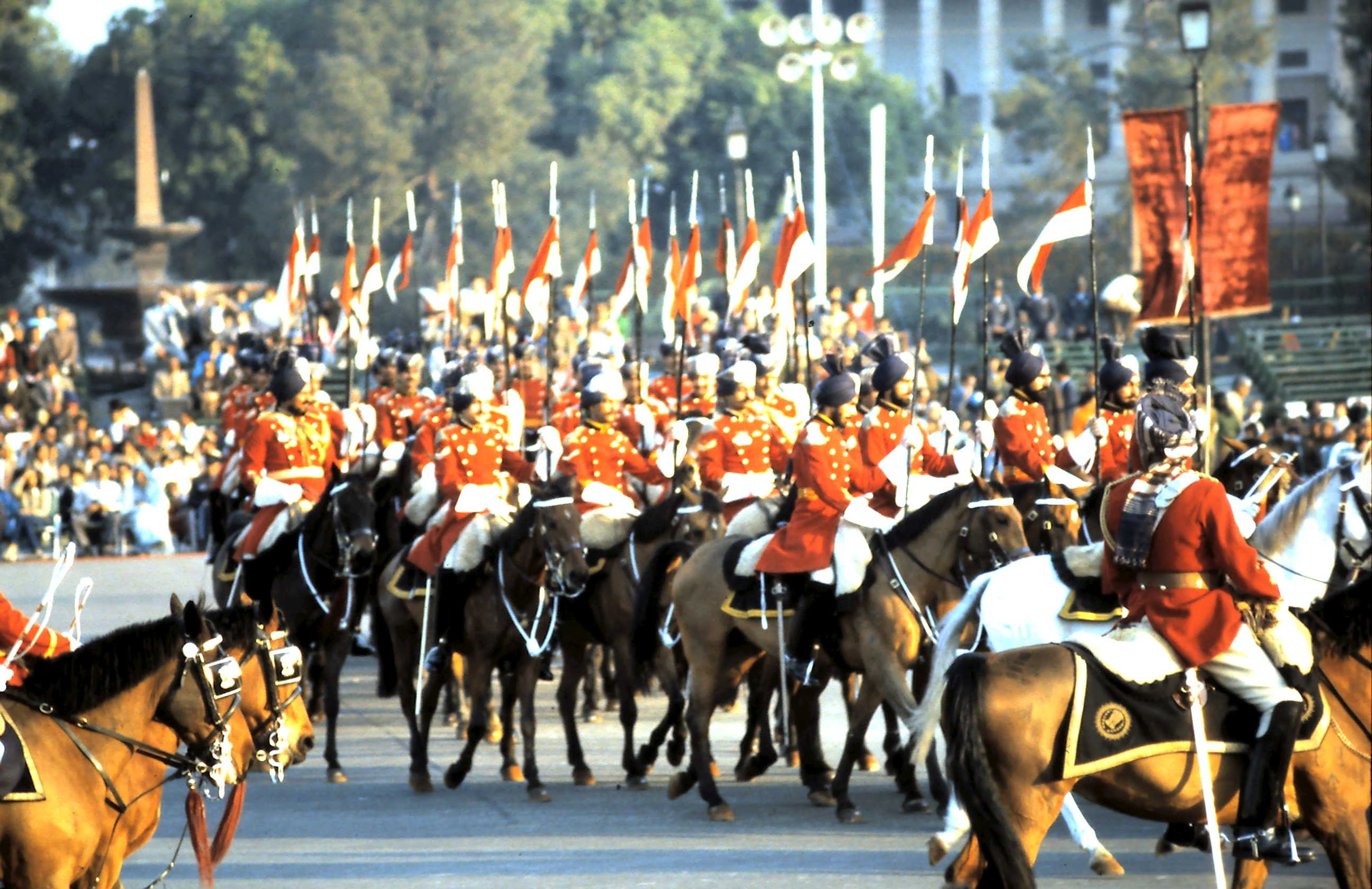 Photo of Republic Day India 2004 celebration - taken by Wolfgang Holzem /